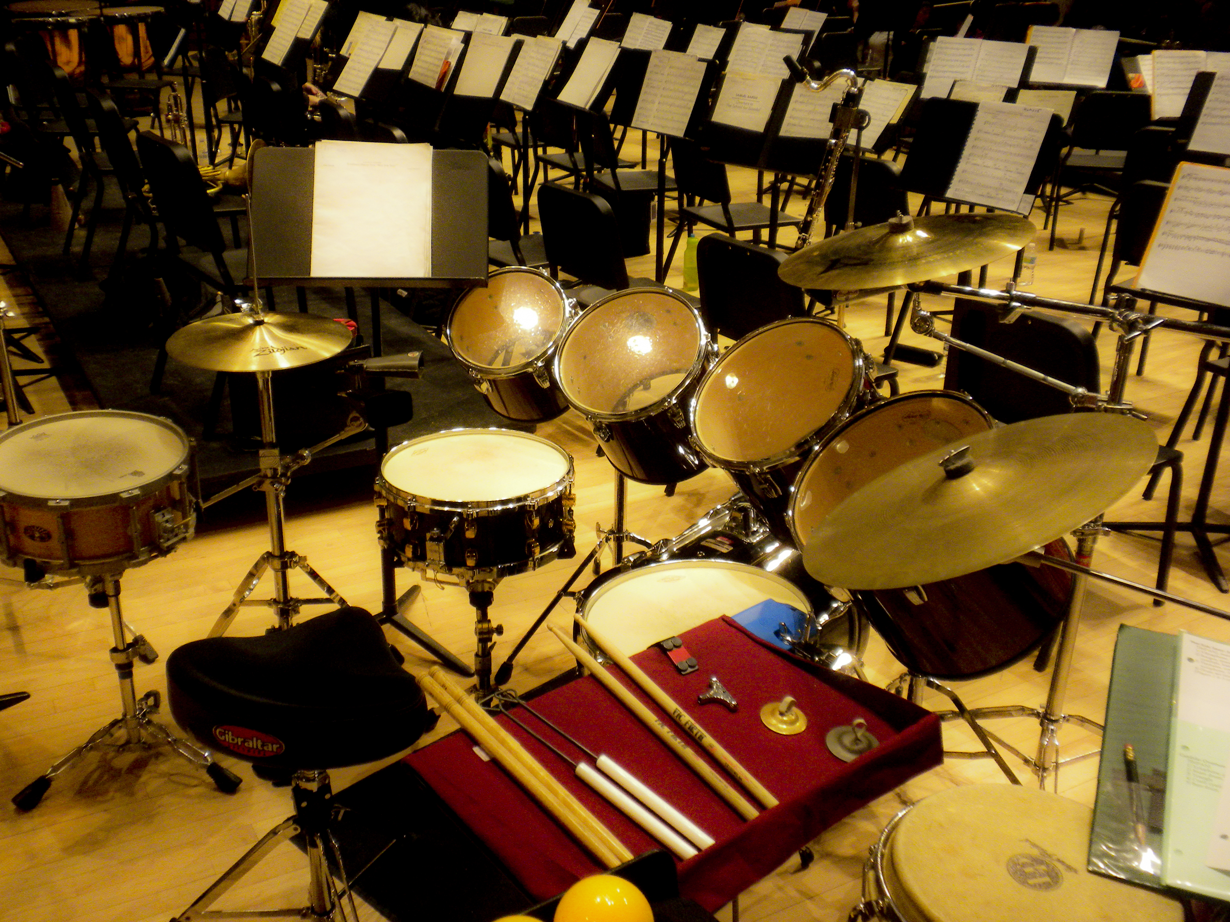 Drumset and Tom Tom Setup for Symphonic Dances from West Side Story. Instruments used: Ludwig concert toms - 10, 12, 13, 14-inch. Yamaha 20-inch kick drum Yamaha 14-inch floor tom Yamaha 6.5x14-inch snare drum Bison 6.5x14-inch snare drum Zildjian 14-inch "New Beat" hi-hat Zildjian 18-inch "A" crash cymbal Zildjian 20-inch ride cymbal Latin Percussion ES-5 Salsa Timbale cowbell Latin Percussion ES-2 Cha-Cha Salsa cowbell Latin Percussion 5-3/4-inch cowbell Latin Percussion 1205 Jam Block Finger cymbals not pictured: Grover Pro 8-inch triangle